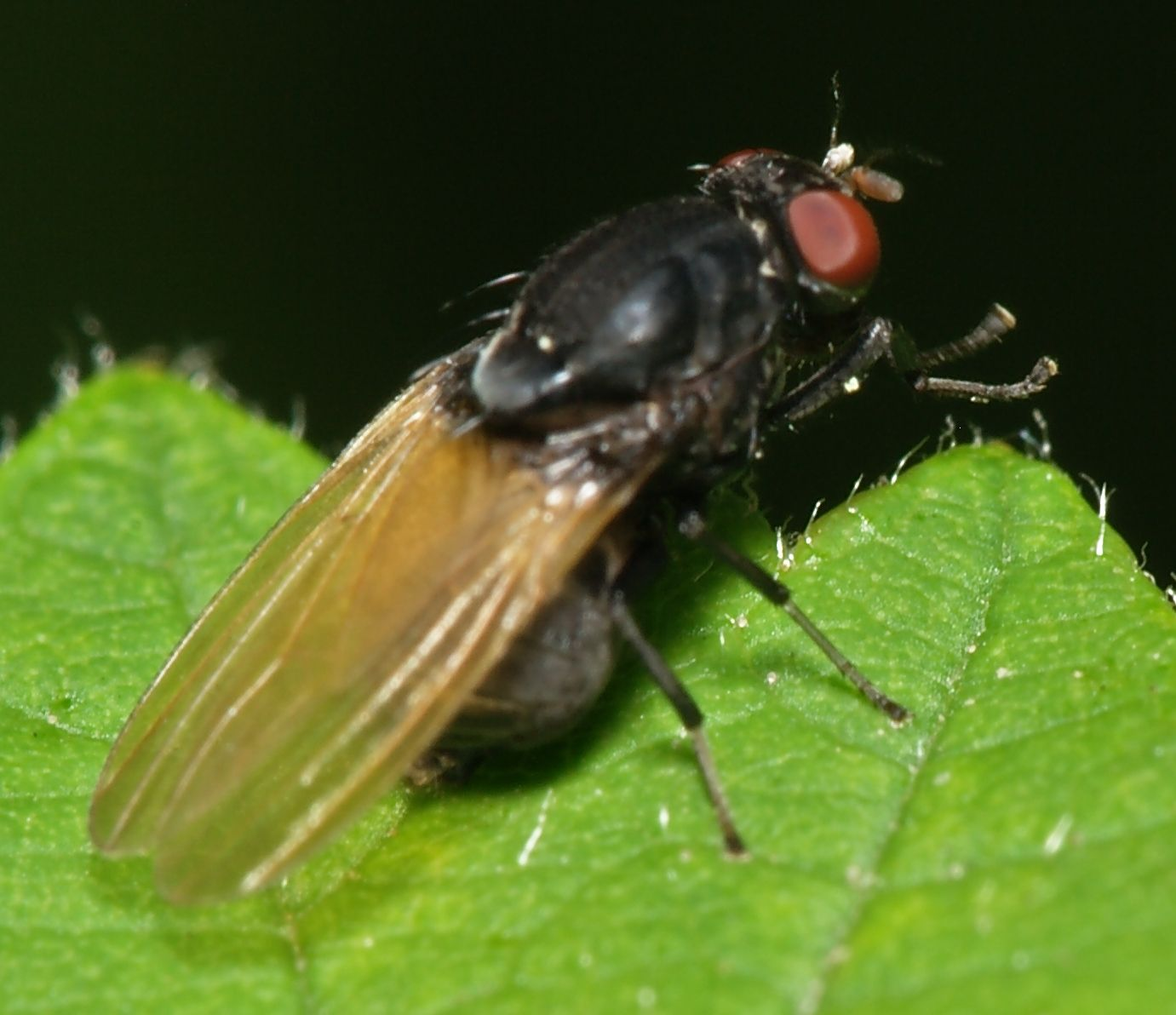 Minettia longipennis from Cologne, Germany.